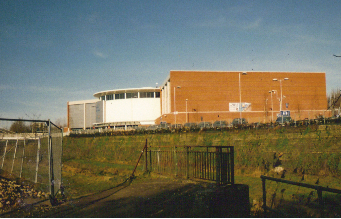 The Spiceball center in Banbury in 2010. Don't move to commons, I'm getting a better picture to replace it.Wipsenade (talk) 03:23, 26 March 2011 (UTC)